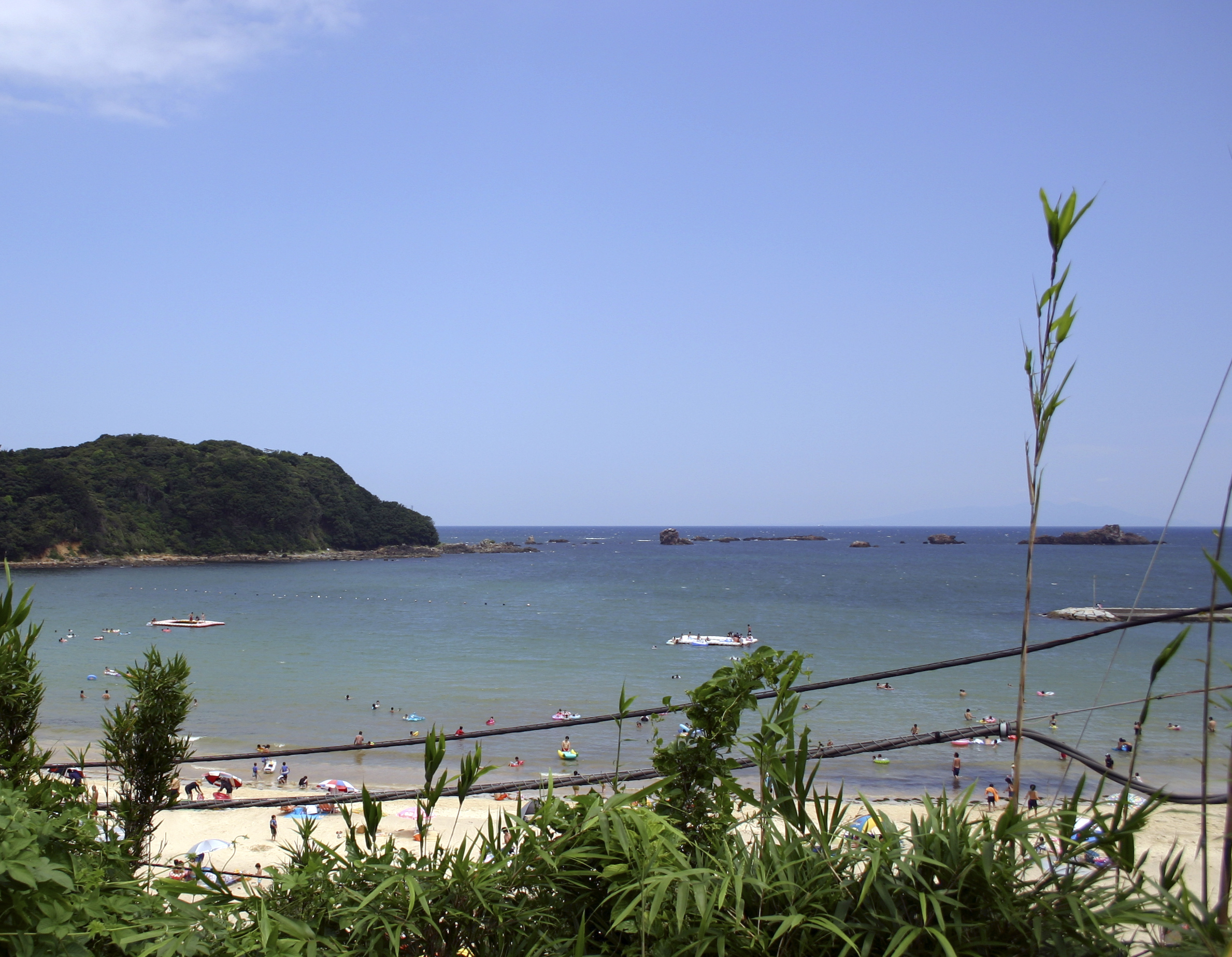 Sotoura Beach in Shimoda, Shizuoka, Japan. Canon EOS Kiss Digital